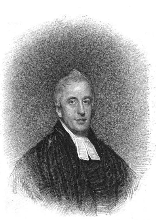 Portrait of Richard Yates (1769–1834), English cleric and antiquary.